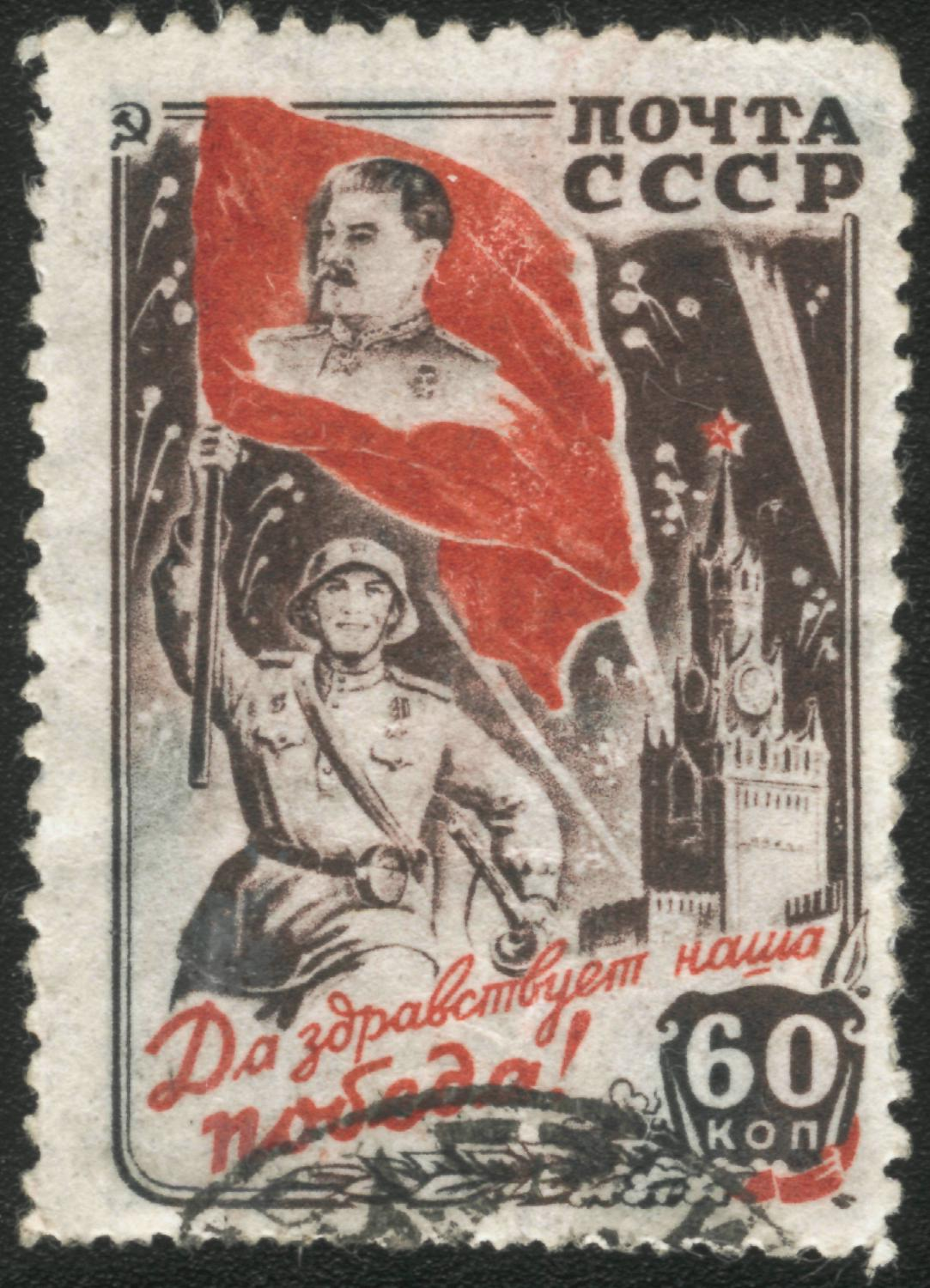 Soviet postage stamp of 60 kopecks. "Long live our Victory", 1946. CPA #1023